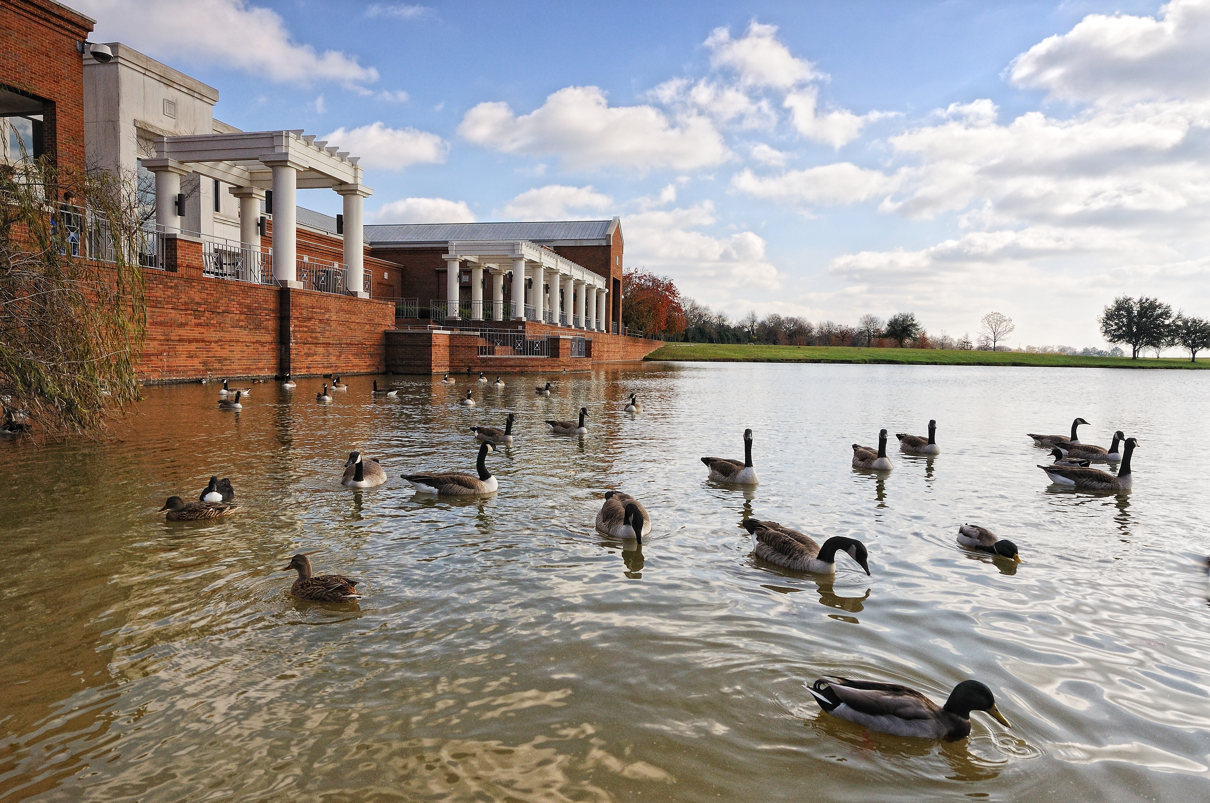 We dropped by the museum for a few minutes after a play at Alabama Shakespeare Festival and before dinner in Montgomery. The Blount Cultural Park is a great place to visit.